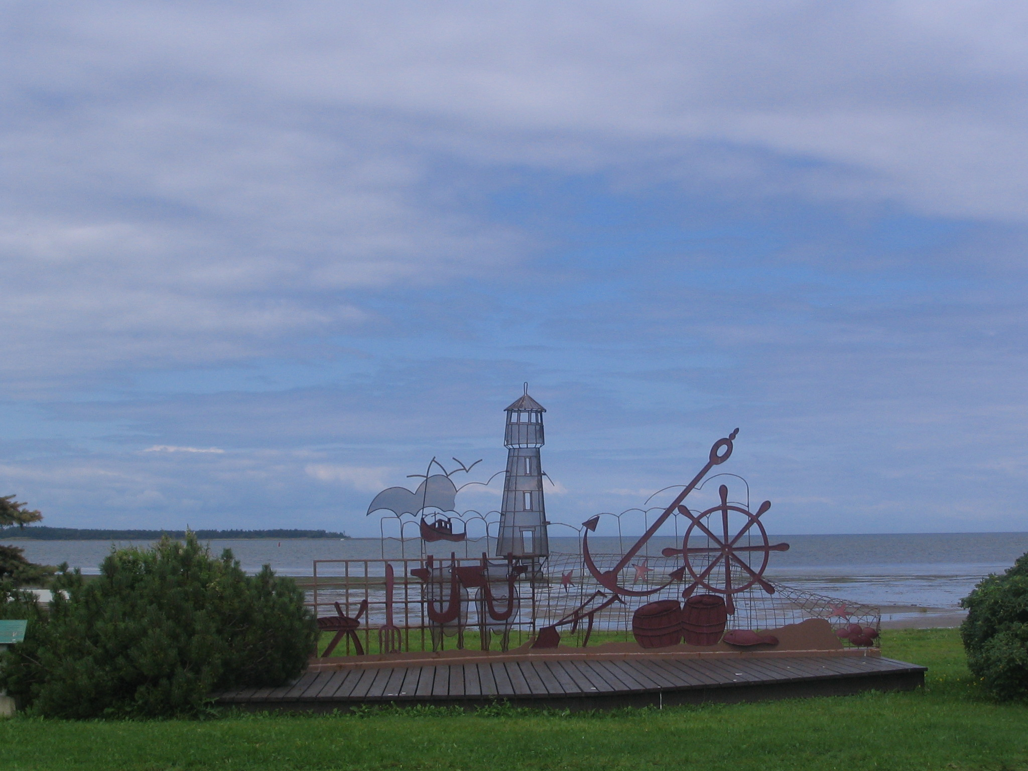 The Gabriel-Giraud site in Bas-Caraquet, New Brunswick, Canada.